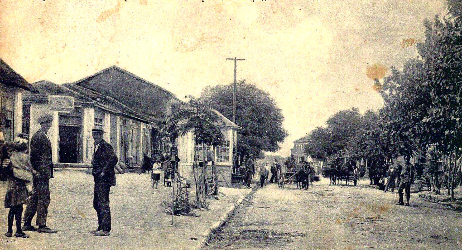 Mustafa pasha main street postcard by Atanas Mardev